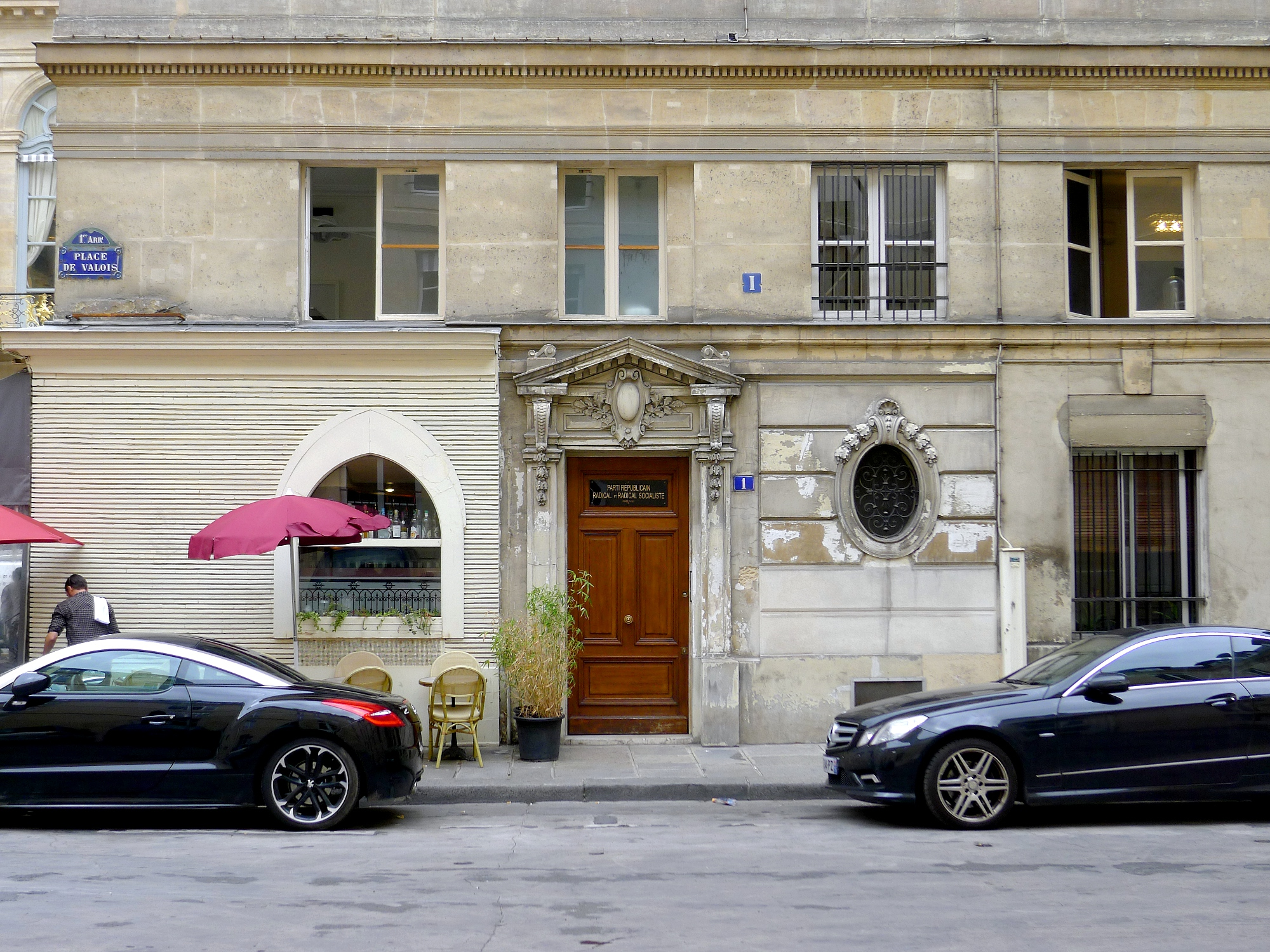 Valois place (n°1) - Paris